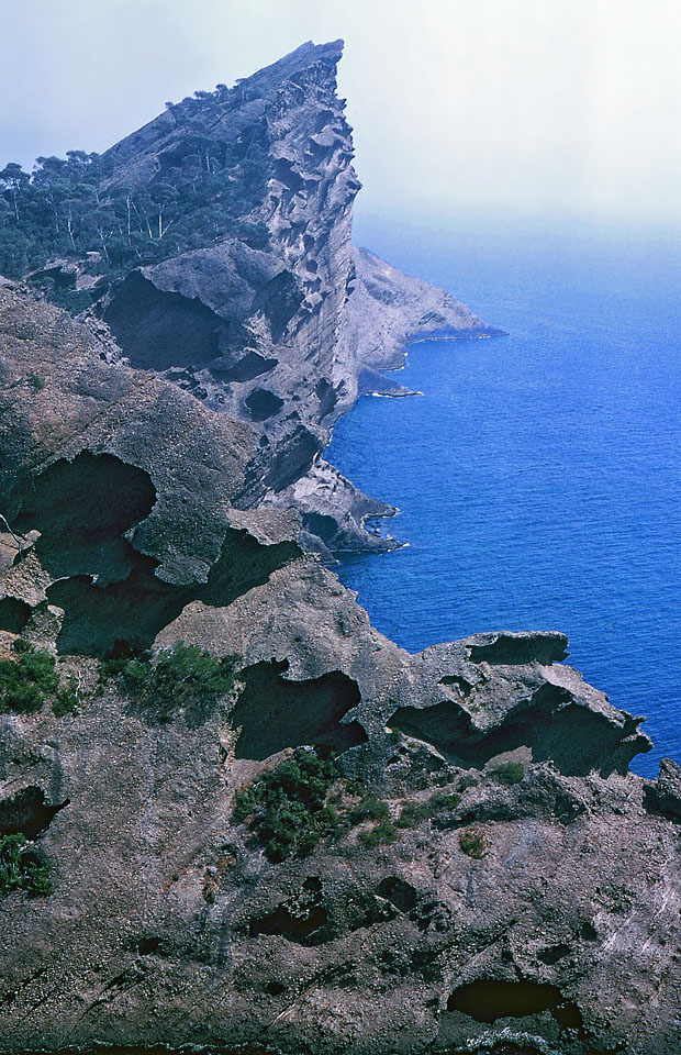 From the summit of Le Capucin, 70 m, we are looking towards the east on the Figuerolles cliffs.